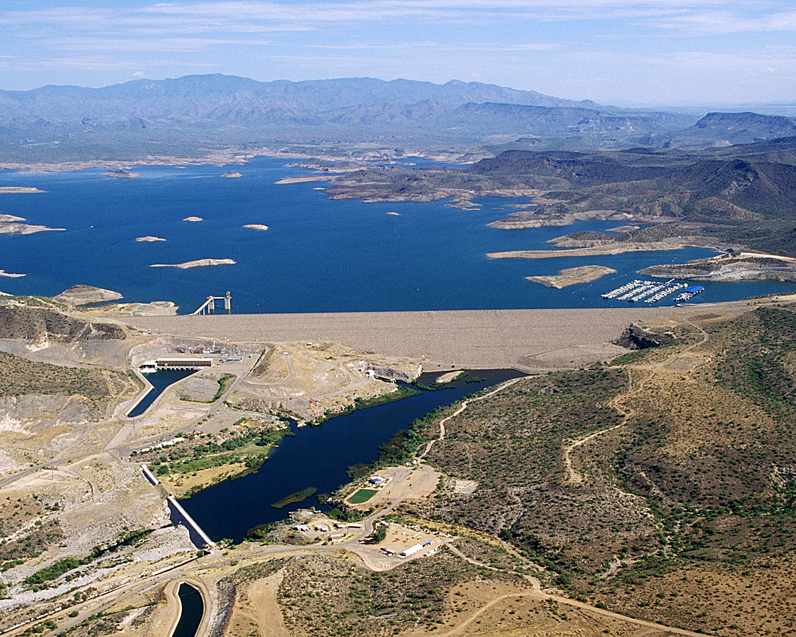 An aerial view of New Waddell Dam